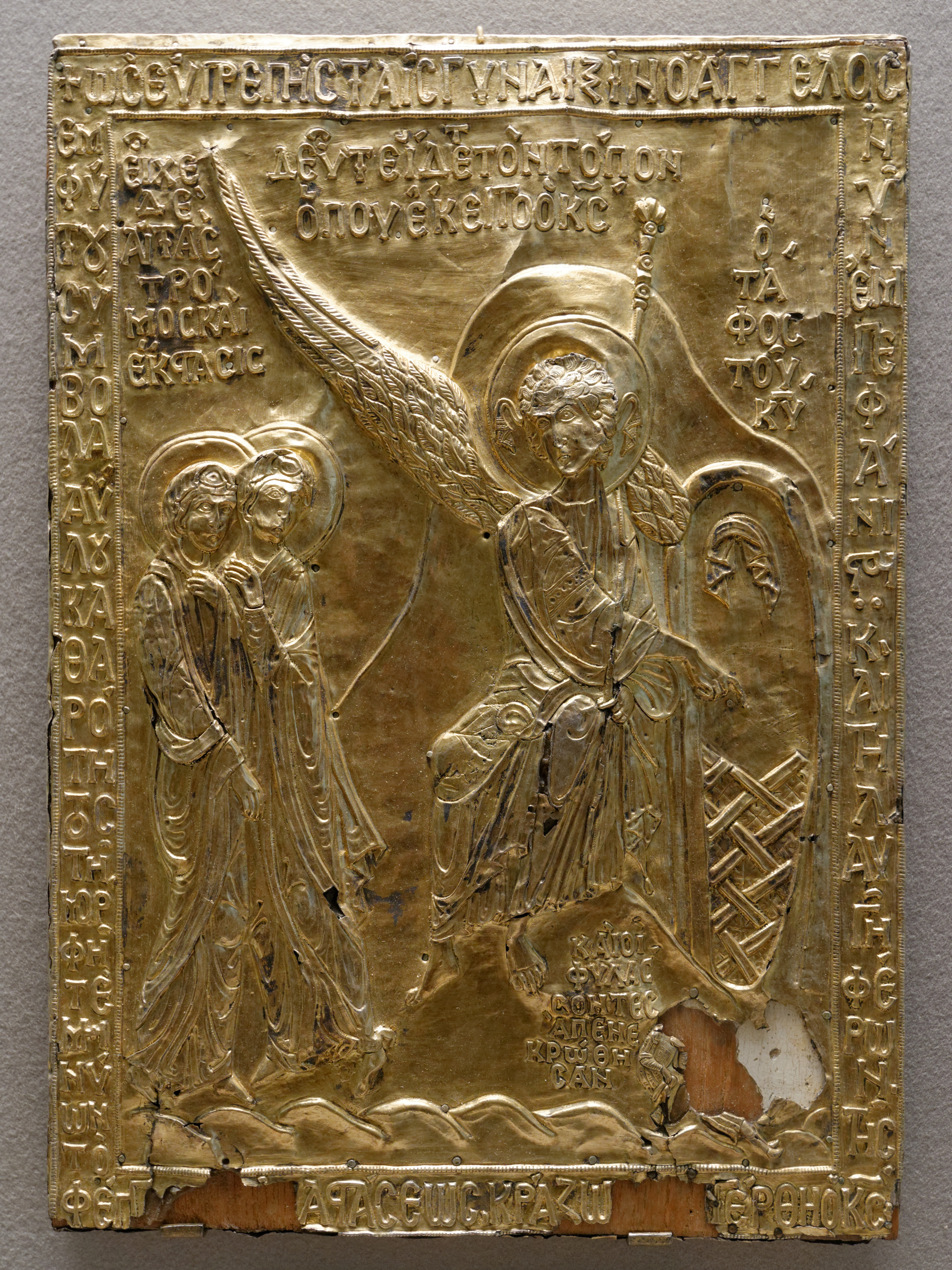 Holy Women and Angel at the Sepulchre, cover of the reliquary of the tombstone of the Holy Sepulchre. Byzantine artwork.